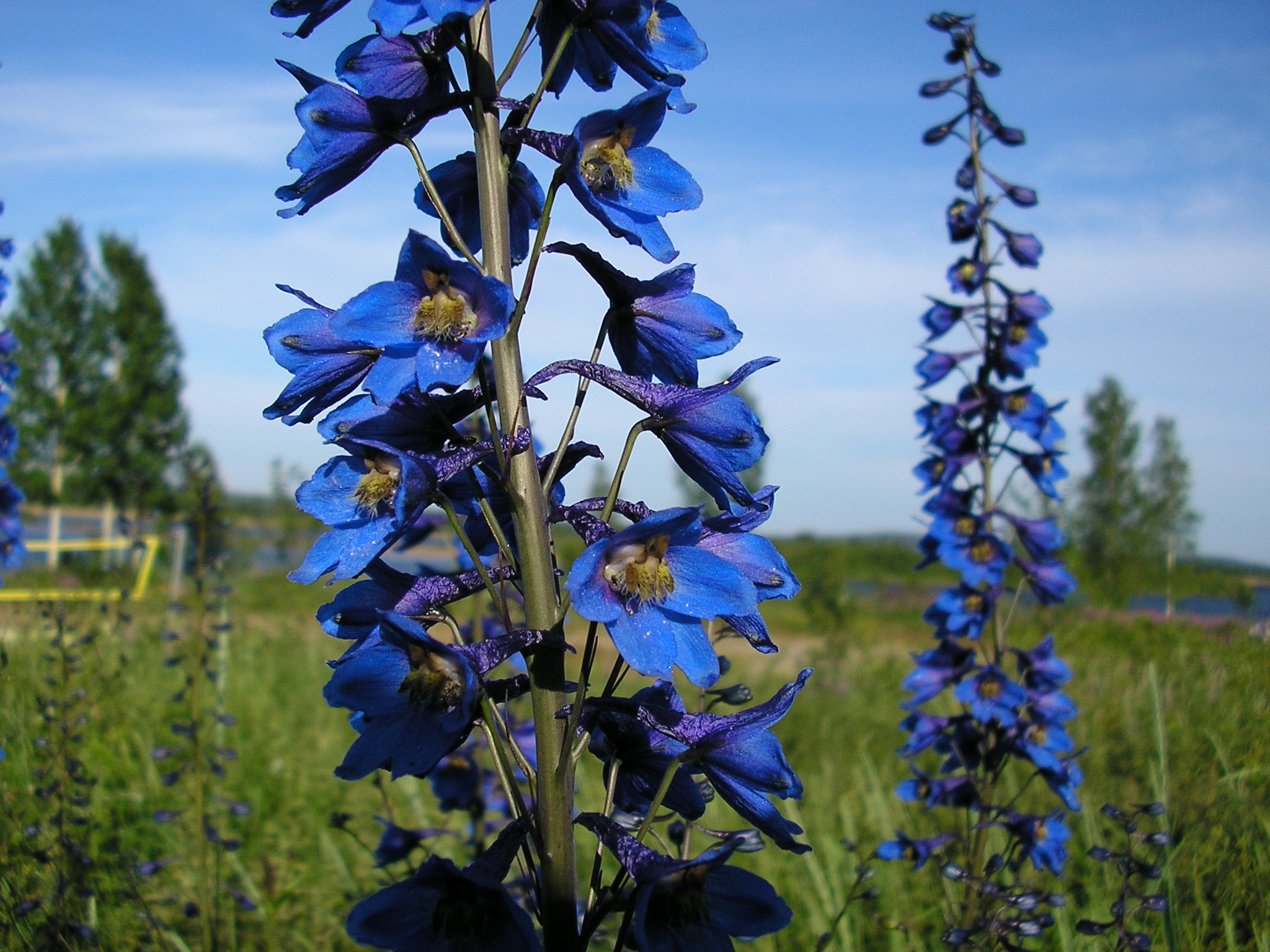 Tornevalley